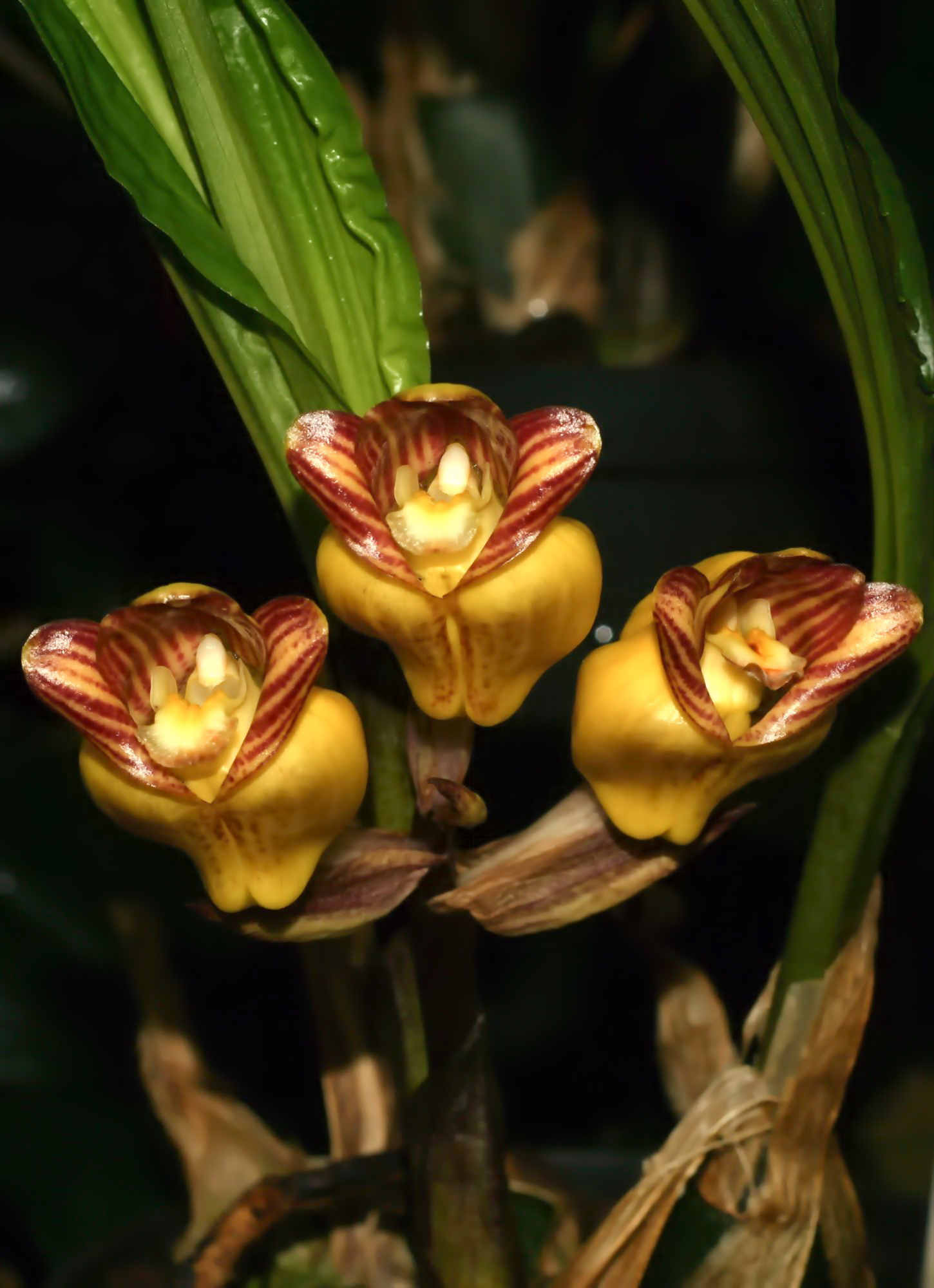 Acanthophippium mantinianum